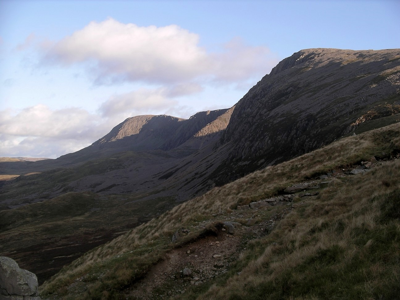 Penygadair - summit of Cadair Idris, Snowdonia Author: User:Velela. Location: Pony track, Cadair Idris Source: Personal photograph taken by Author November 14 2004